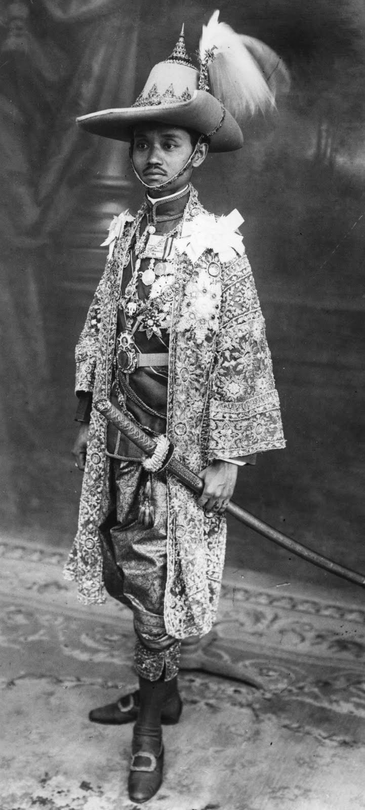 Photographic portrait of King Prajadhipok (Rama VII) of Siam